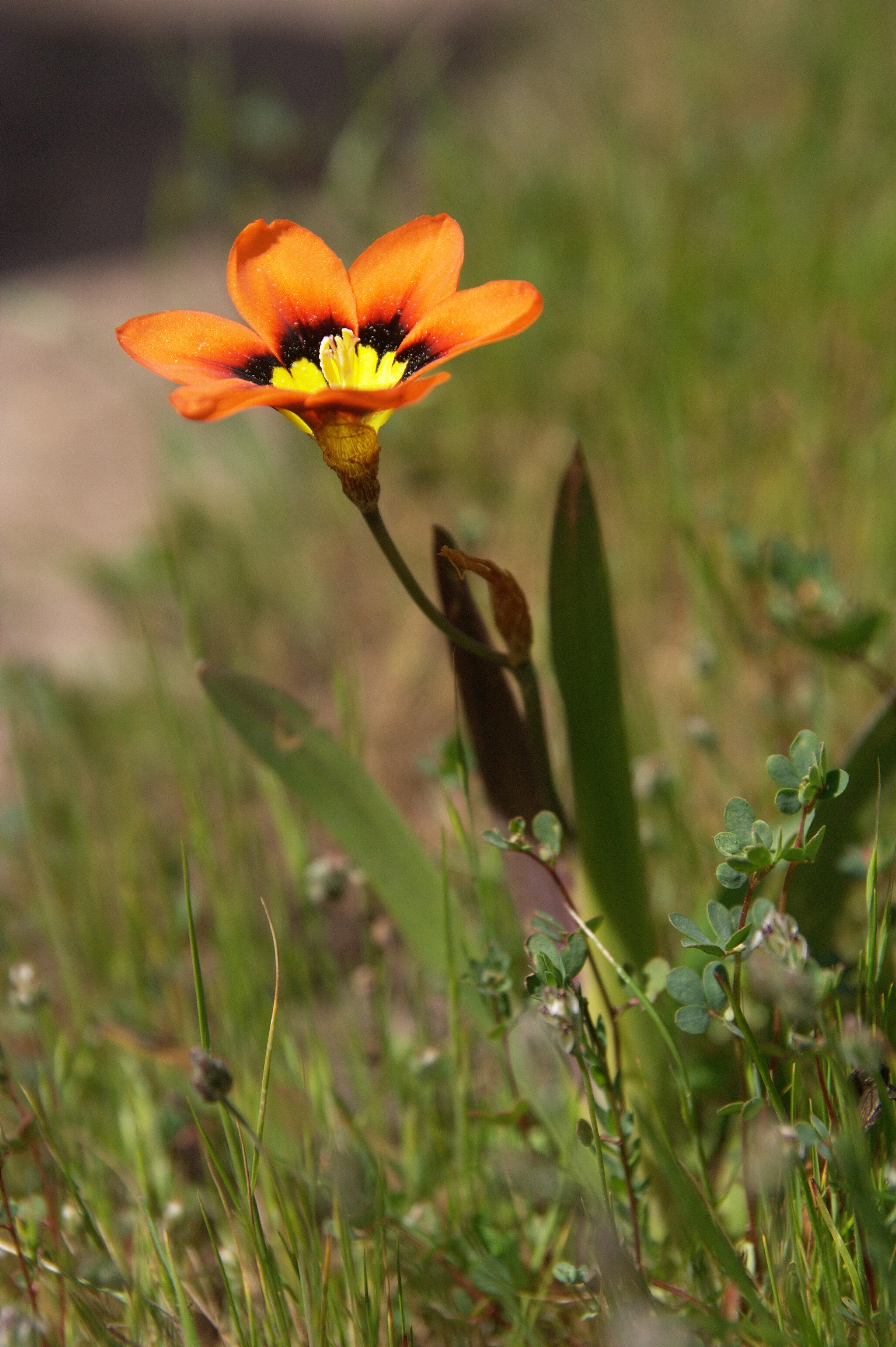 Sparaxis tricolor, growing (introduced) in Point Reyes National Seashore in California, USA.